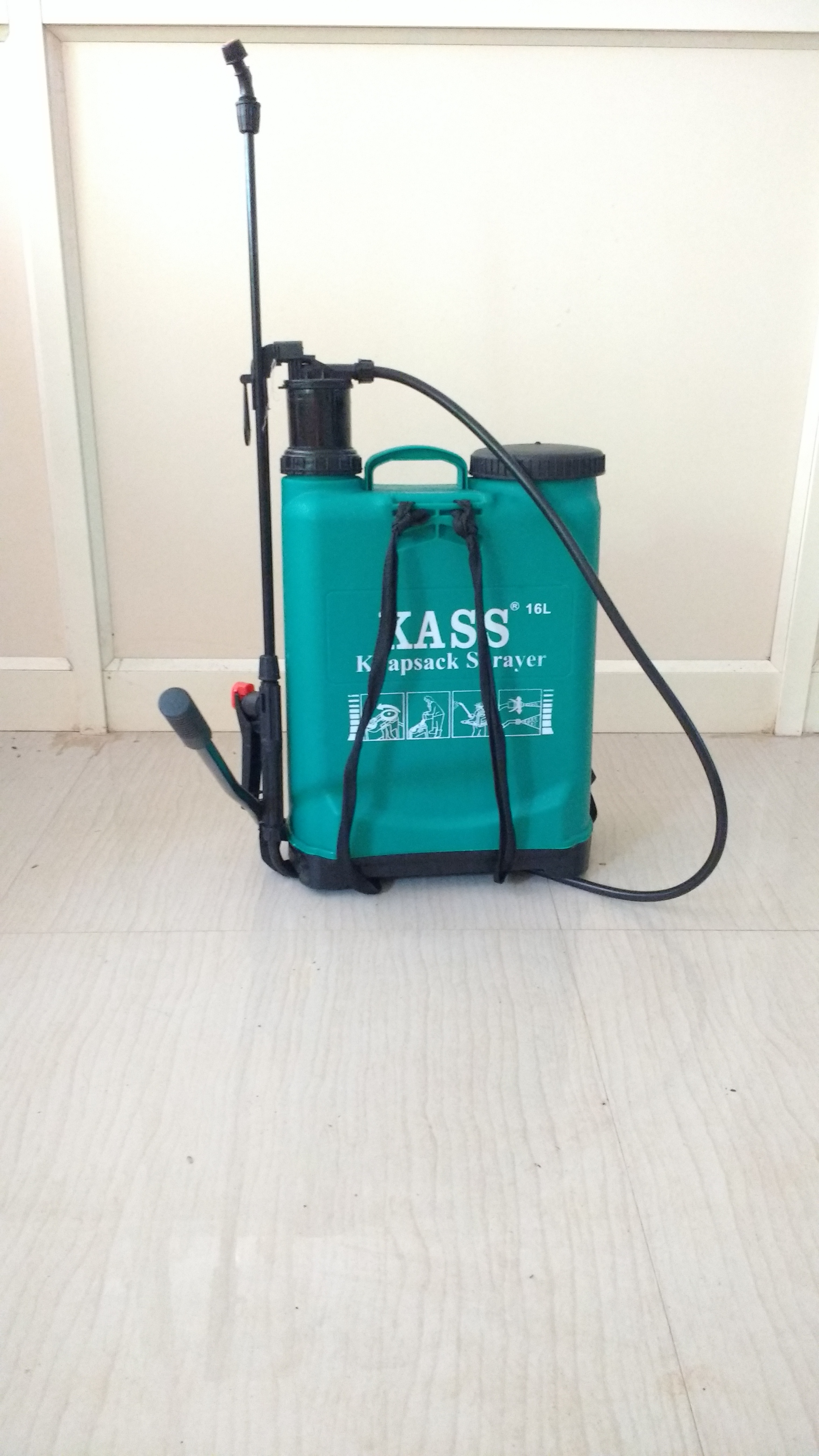 An image of knapsack sprayer